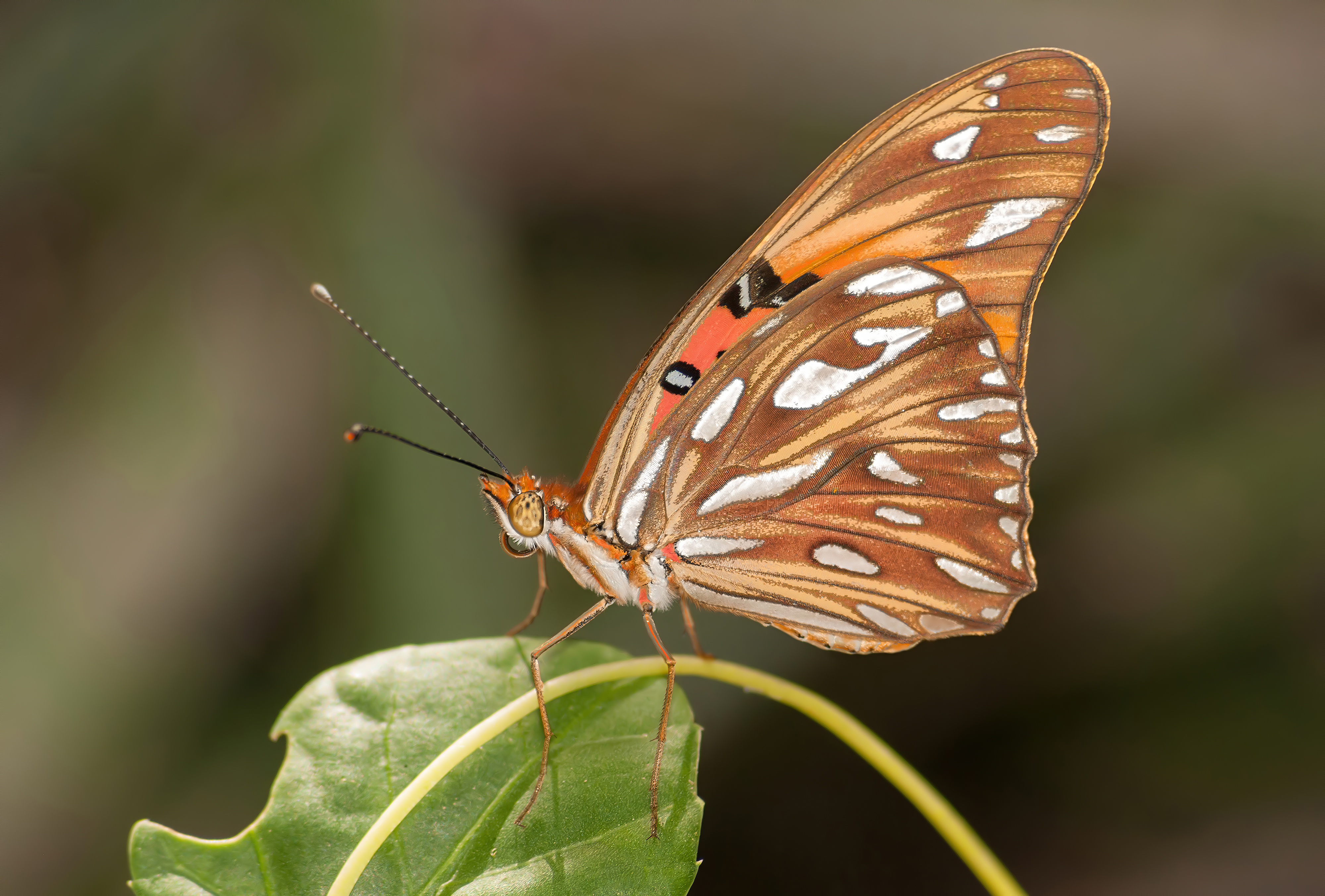 Agraulis vanillae (Linnaeus, 1758) in Isla Margarita